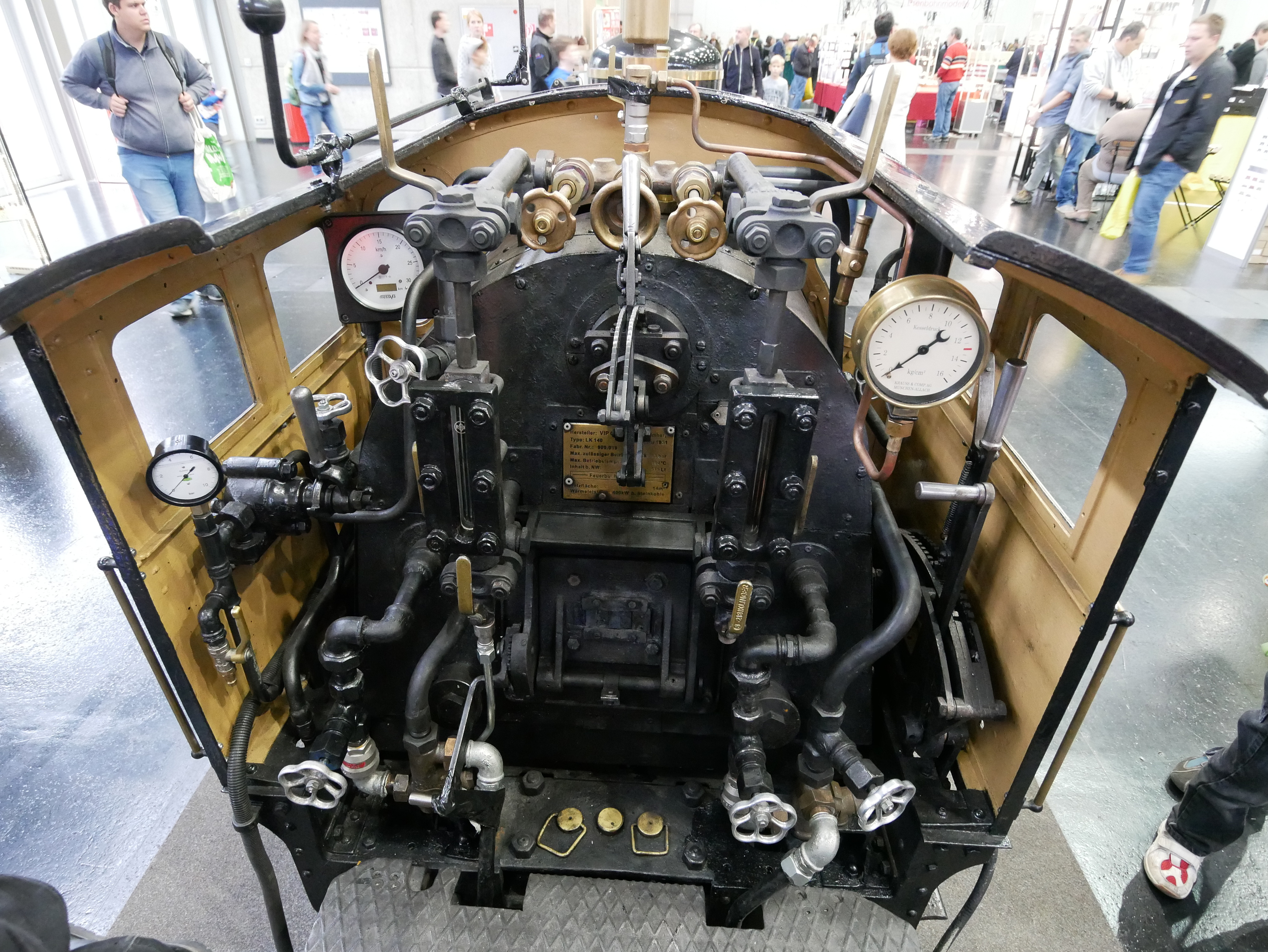 Footplate of Liliputbahn Da1.